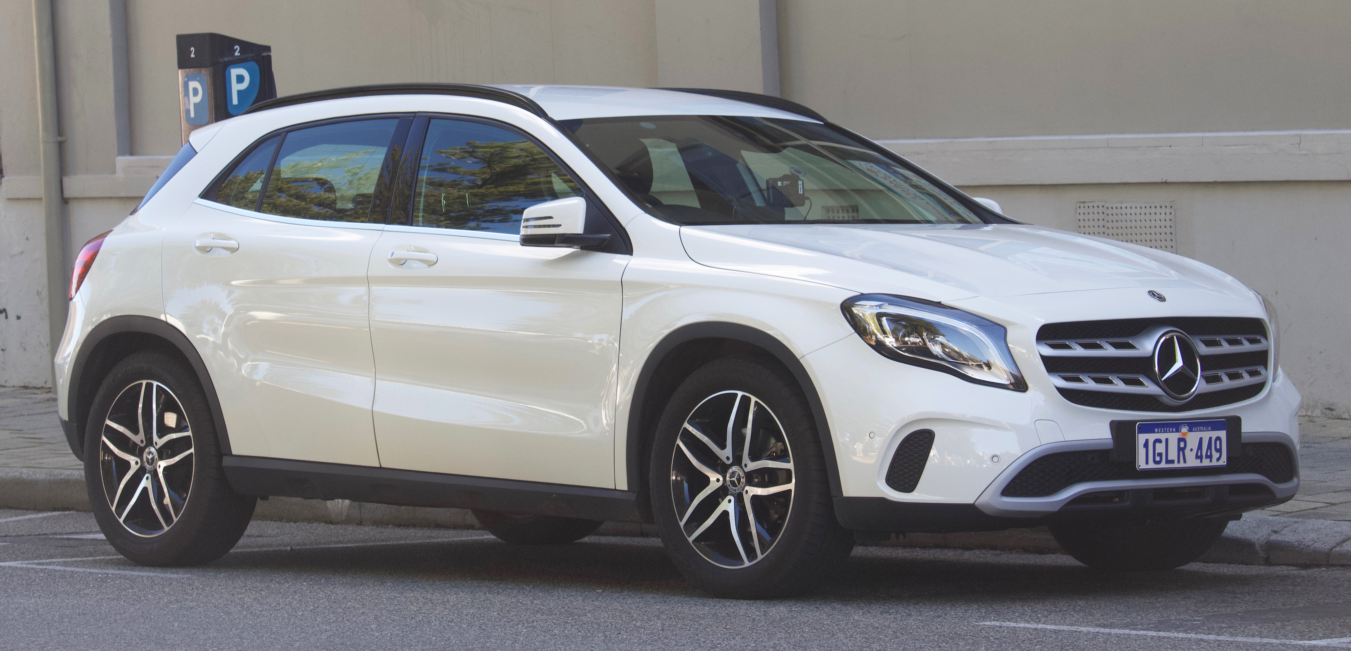 2018 Mercedes-Benz GLA 180 (X 156) wagon. Photographed in Fremantle, Western Australia, Australia.